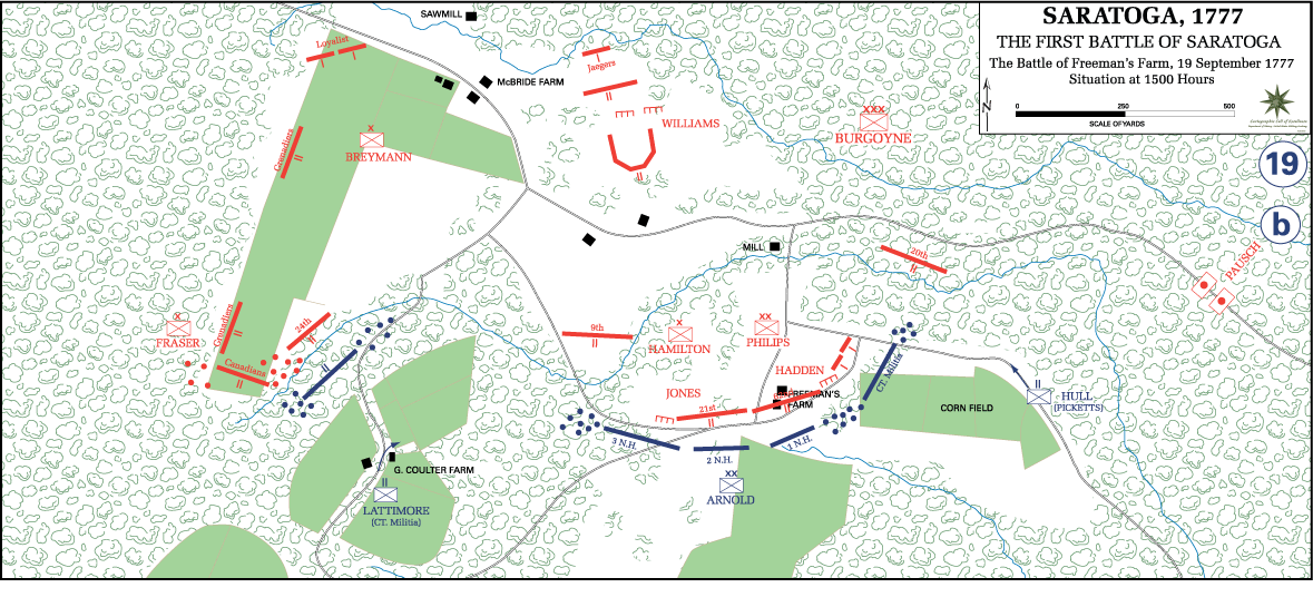 First Battle of Saratoga 1500 Hours